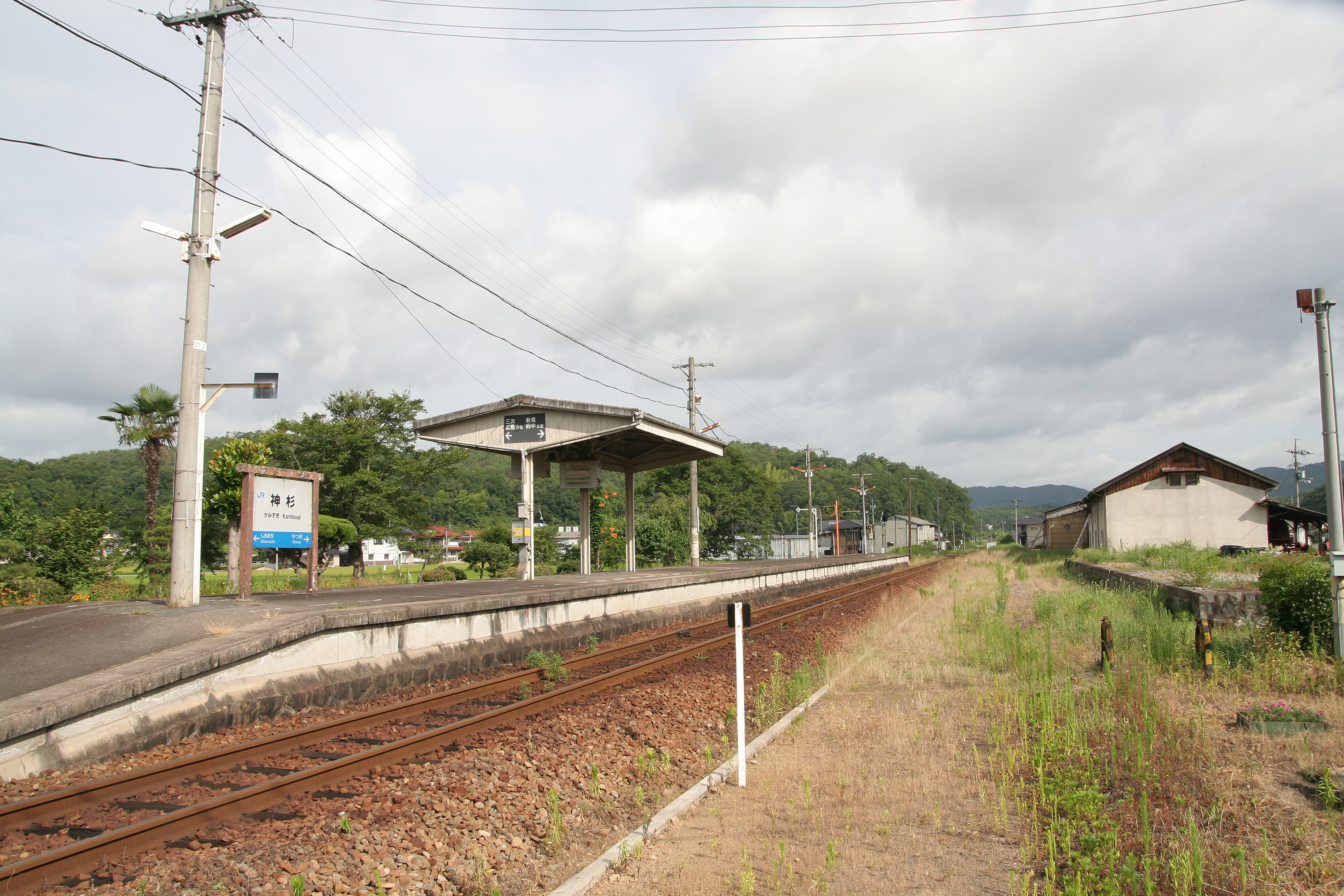 West Japan Railway Geibi Line Kamisugi Station enclosure